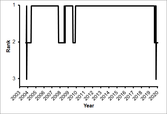 IRB World Rankings from